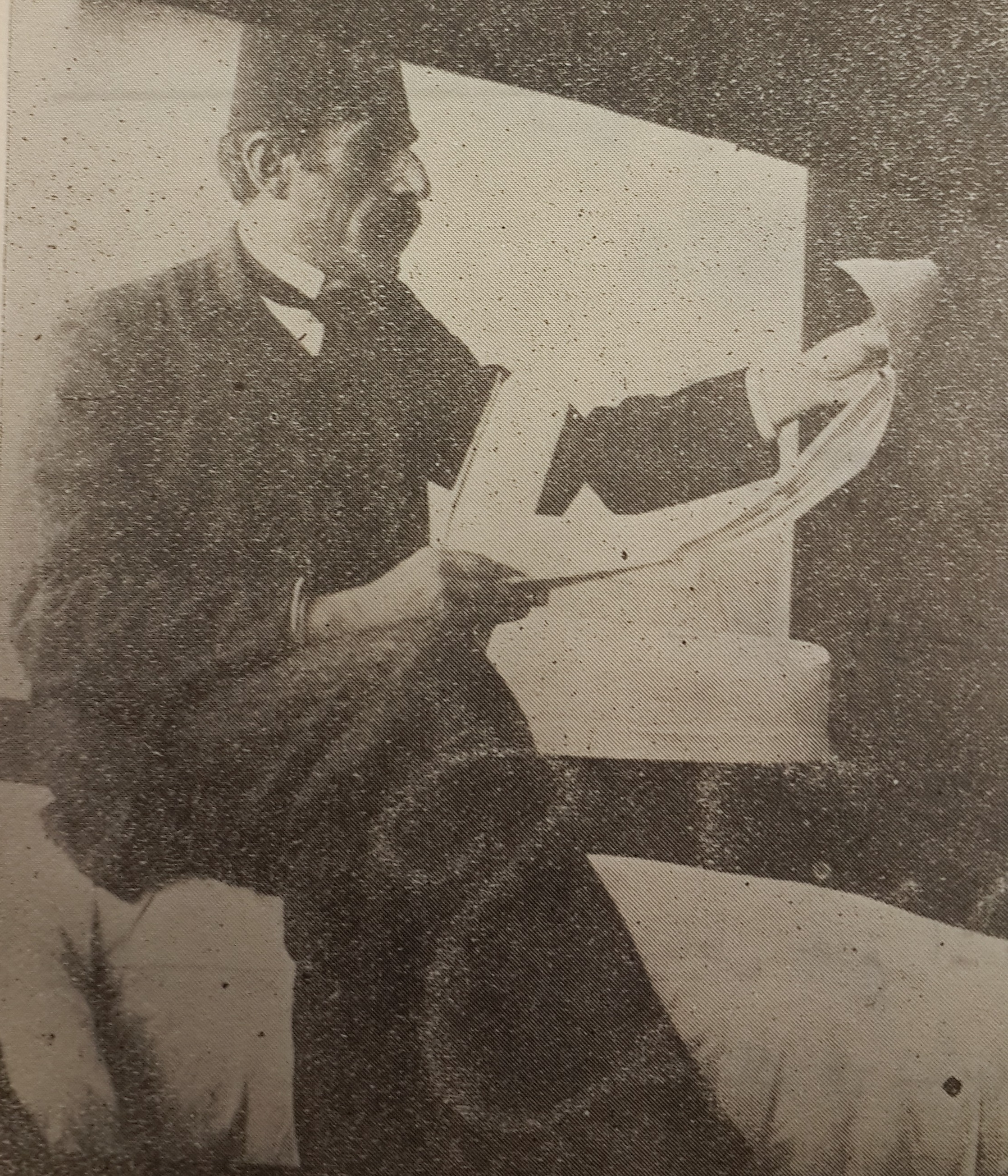 Sheikh Khalil El Khoury, Father of the 1st Lebanese President during independence era, Sheikh Bechara El Khoury.